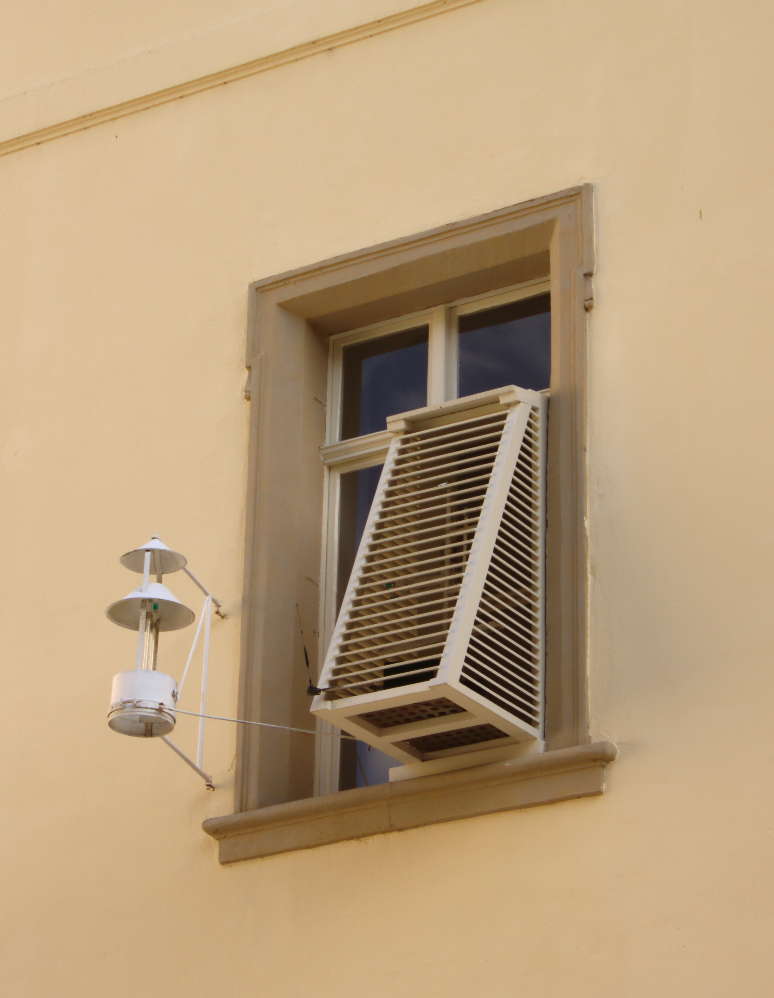 Meteorological measurements in Klementinum, Prague, CZ